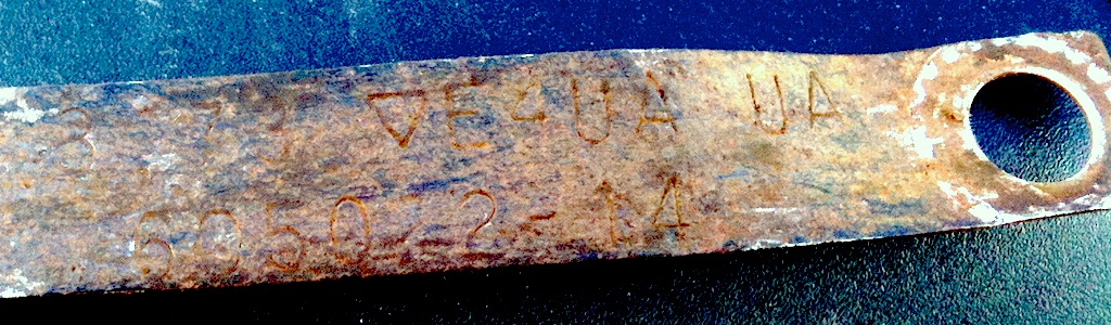 Dana 61 axle tag from a 1984 Ford Econoline E350 cargo van. It decodes to 3.73 gear ratio, open differential, full floating axle shafts.[1]